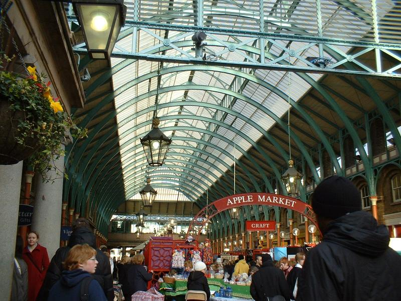 Covent Garden market, London. Taken 7th March 04 by C Ford.